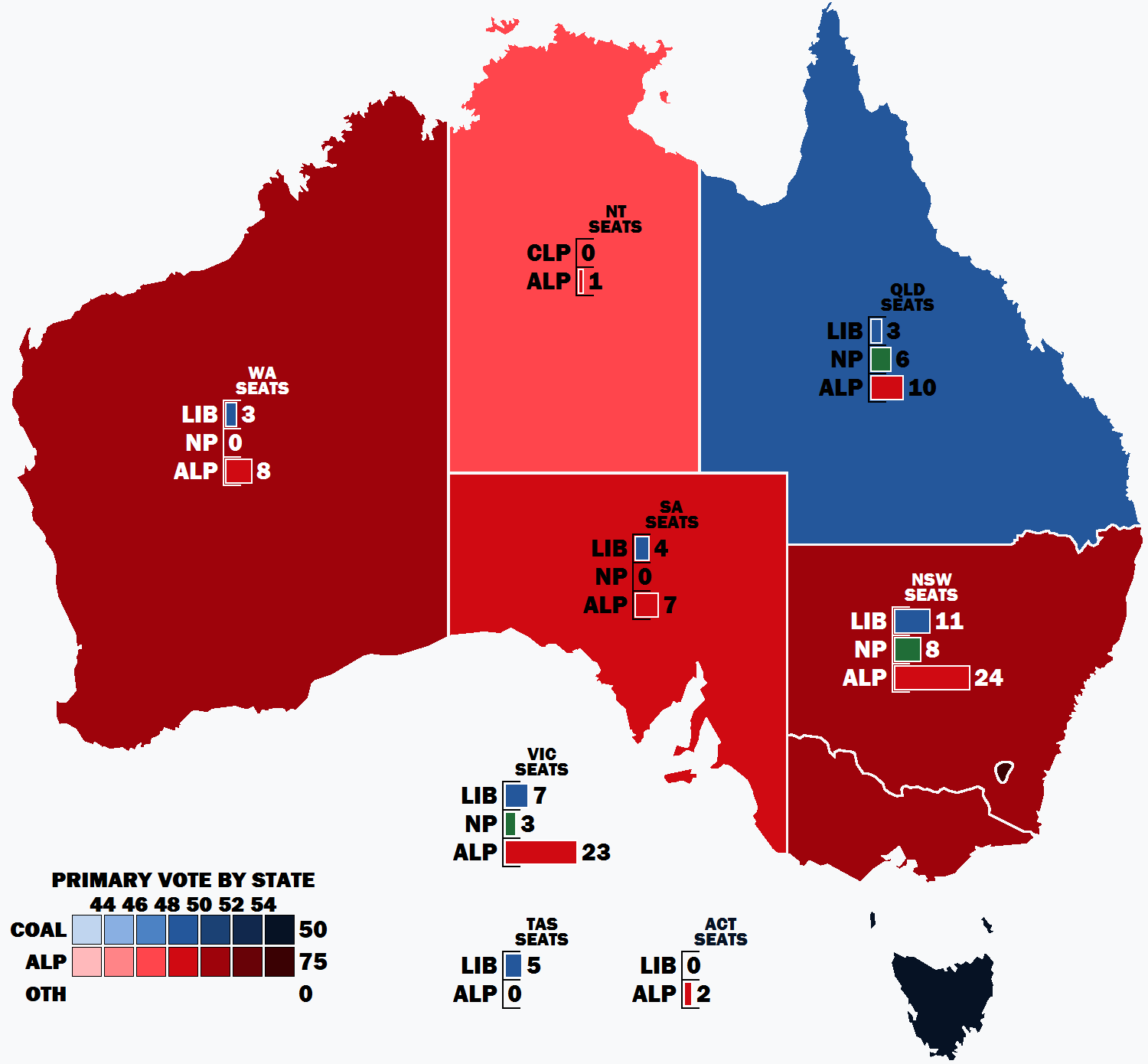 Result of the primary vote by state and territory in the 1983 Australian federal election.